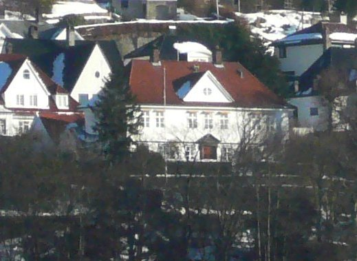 Villa Westfal-Larsen